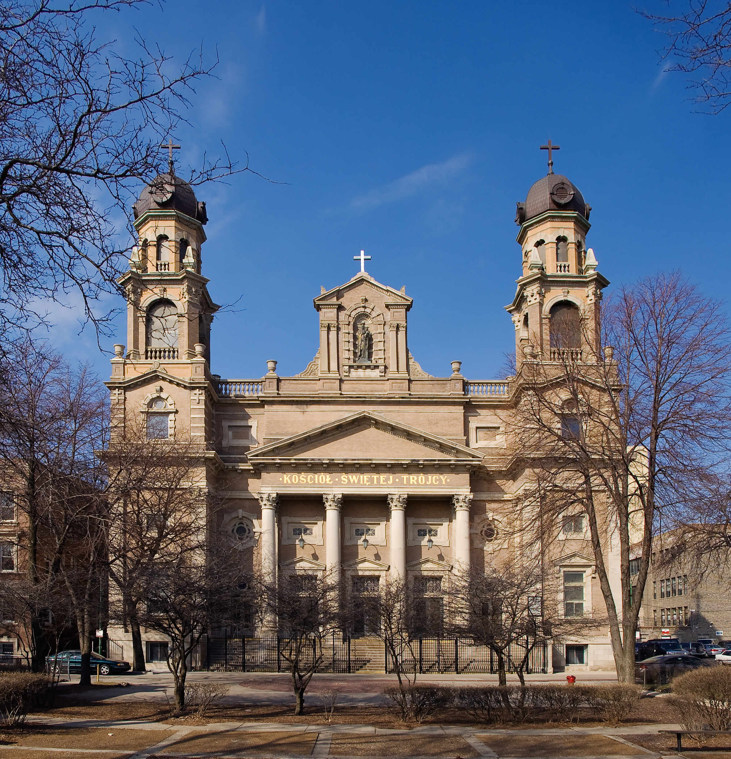 Facade of Holy Trinity Polish Mission in Chicago, Illinois.